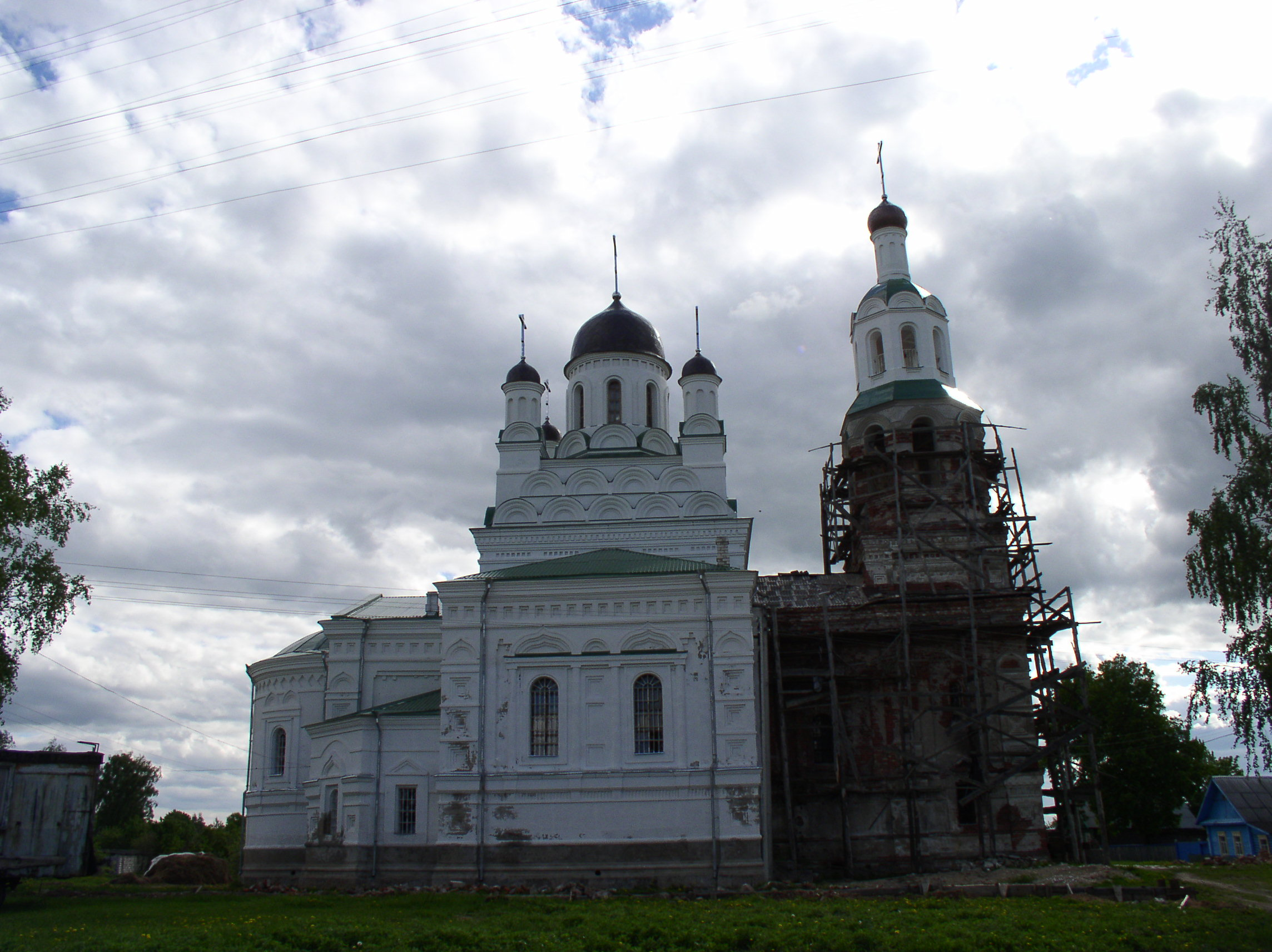 Orthodox church of Holy Trinity. Ula, Belarus.